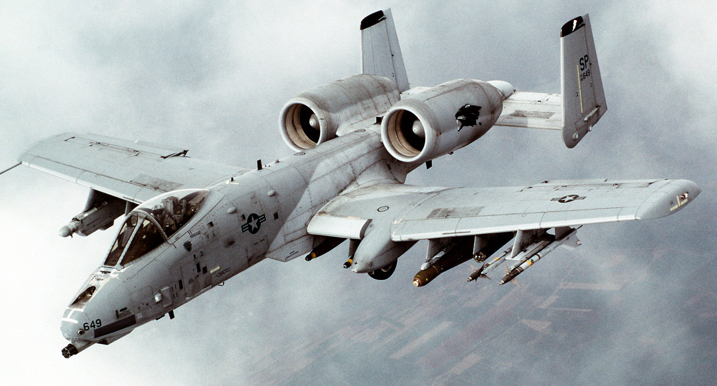 An A-10 Thunderbolt II from the 81st Fighter Squadron, Spangdahlem Air Base, Germany, pulls away from a tanker (not shown) after refueling on the way to Serbian targets during Operation ALLIED FORCE. This photograph was used in the September 1999 issue of Airman Magazine.